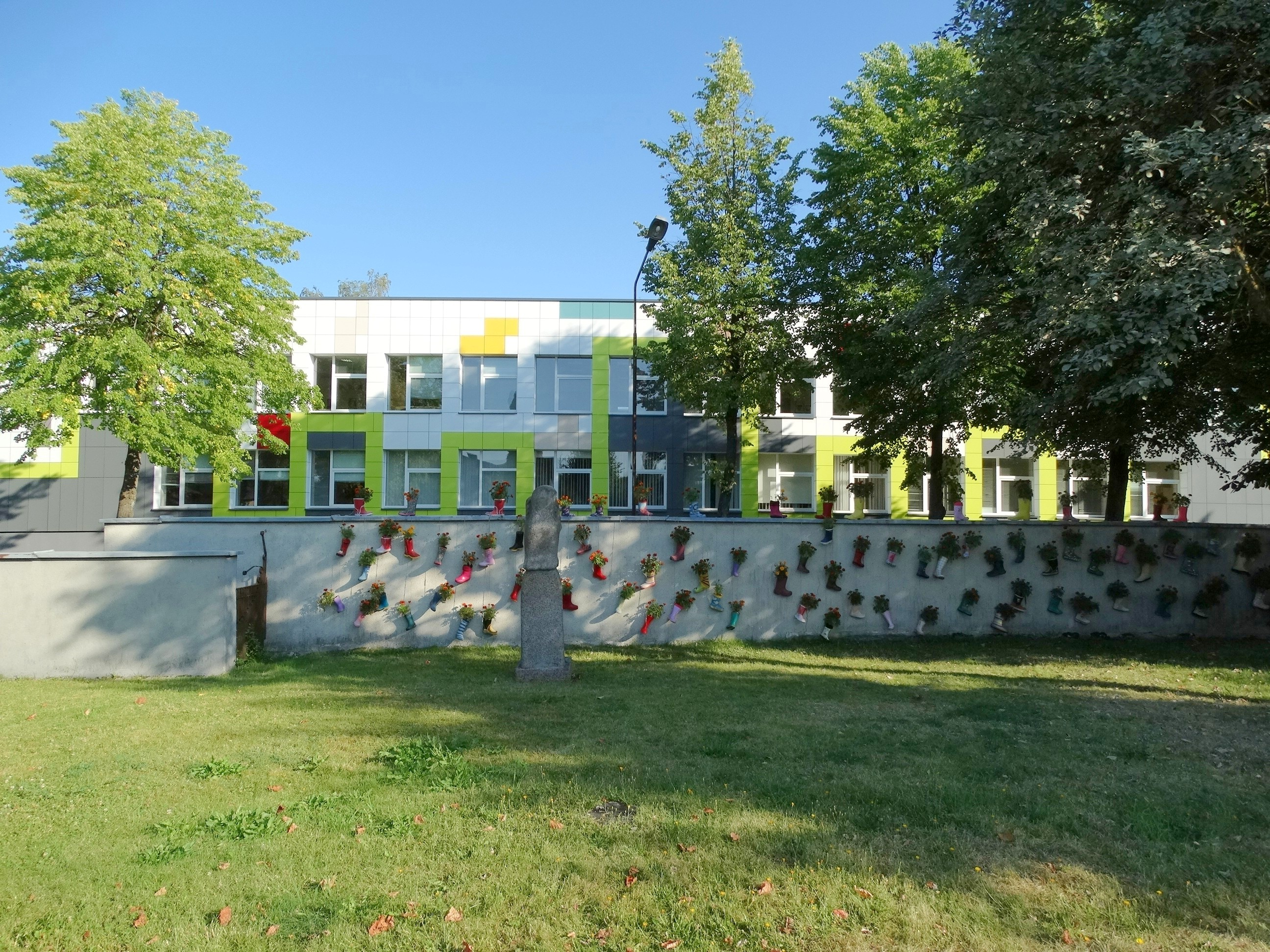 Art school, Molėtai, Lithuania